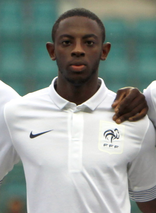 U-19 Spain vs France.